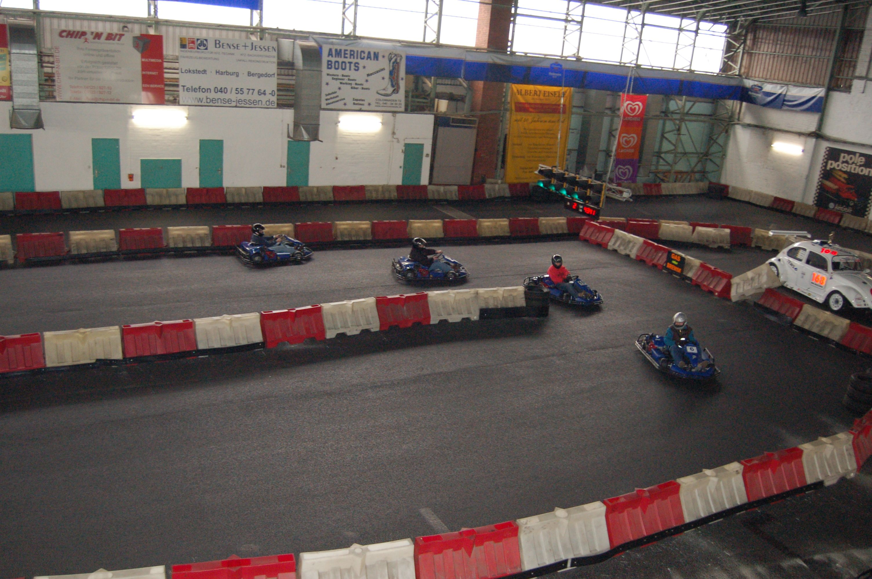 Indoor kart circuit